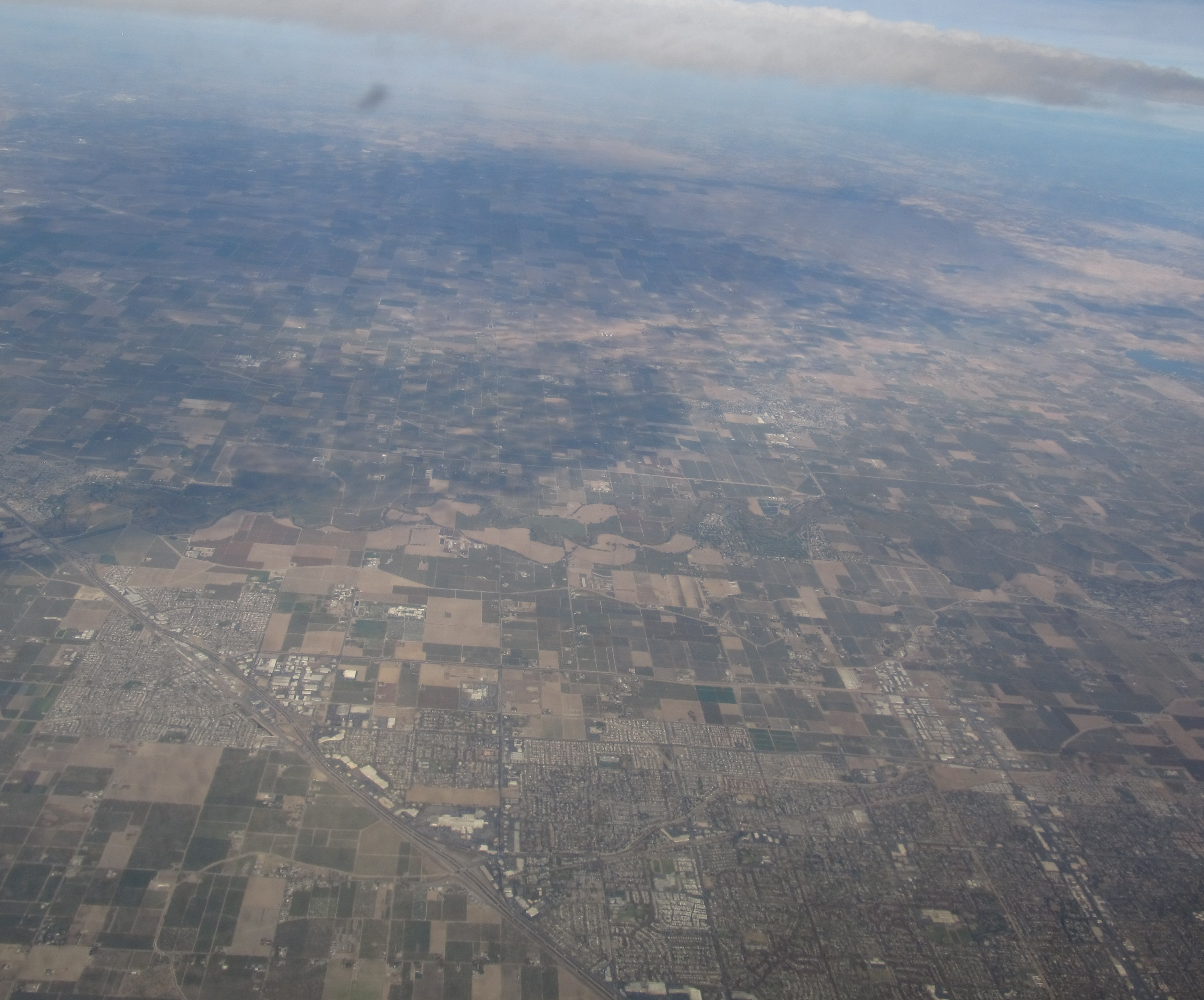 Modesto is the county seat and largest city of Stanislaus County, California, United States. With a population of approximately 201,165 at the 2010 census, Modesto ranks as the 18th largest city in the state of California. The Modesto Census County Division, which includes the cities of Ceres and Riverbank, has a population of 312,842 as of 2010. Modesto is located in the Central Valley area of Northern California, 90 miles north of Fresno, 92 miles east of San Francisco, 68 miles south of the state capital of Sacramento, 66 miles west of Yosemite National Park, and 24 miles south of Stockton. Modesto, a 29-time Tree City USA honoree, is surrounded by rich farmland, lending to a ranking for the county as 6th among all California counties in farm production. Led by milk, almonds, chickens, walnuts, and corn silage, the county grossed nearly $3.1 billion in agricultural production in 2011. Modesto was immortalized in the 1973 George Lucas film American Graffiti. The award winning film captured the spirit of "cruising" and friendship on 10th and 11th Streets in 1962 and led to the revival of 1950's nostalgia that included the TV show Happy Days and the other spin-offs. Ron Howard, Harrison Ford and Richard Dreyfuss starred in the film. The soundtrack was a huge success. Director George Lucas is a native of Modesto, graduating from Downey High School in 1962. The Gallup-Healthways Well-Being Index for 2011, which interviews 1,000 participants daily and asks individuals to assess their jobs, finances, physical health, emotional state of mind and communities, ranked Modesto 126 out of the 190 cities surveyed. In December 2009, Forbes ranked Modesto 48th out of 100 among "Best Bang-for-the-Buck Cities". In this ranking, Modesto ranked 8th in housing affordability and travel time but also ranked 86th in job forecast growth and 99th in foreclosures.